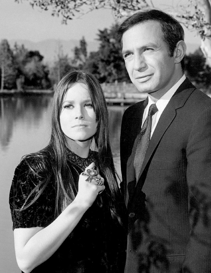 Photo of Ben Gazzara as Paul Bryan and guest star Barbara Hershey in a scene from Run for Your Life.